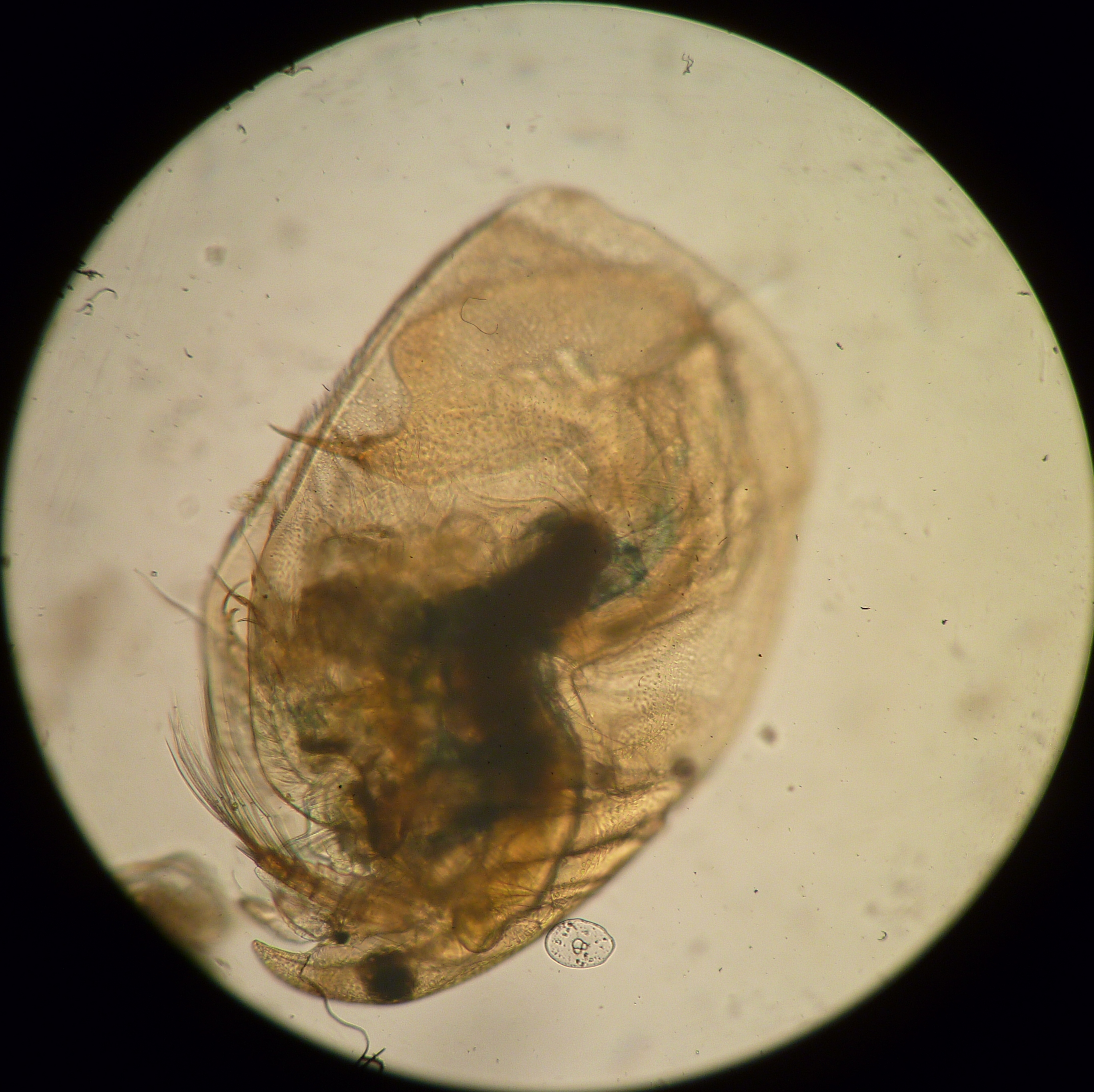 Eurycercus lamellatus